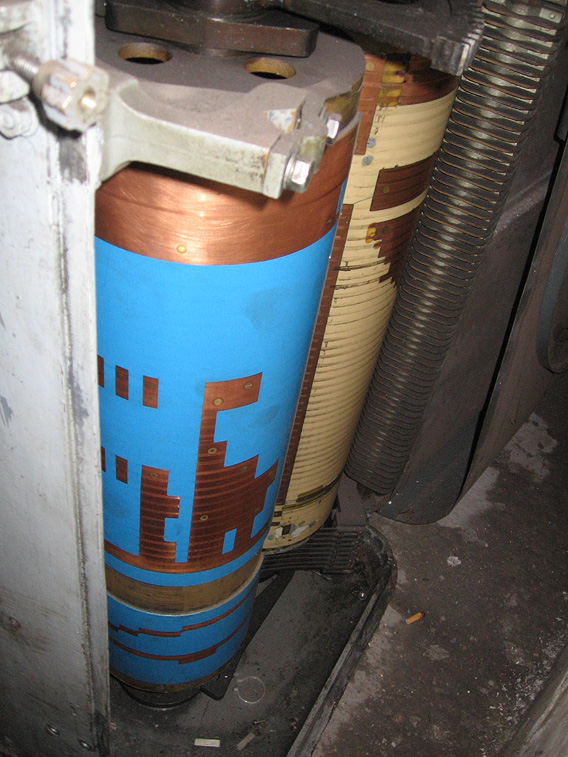 362.031 - controller - blue cylinder for brake controll and white one for traction